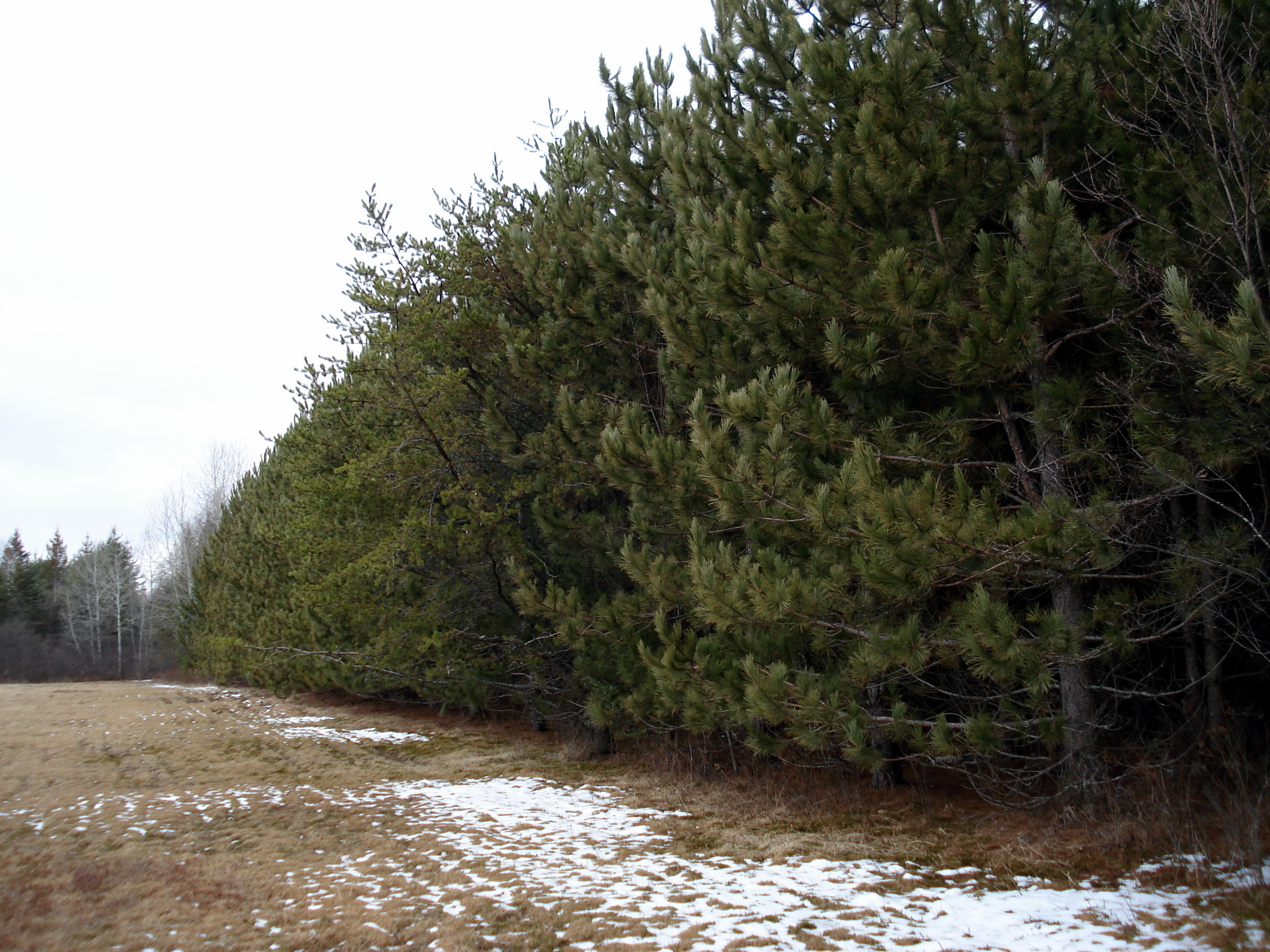 A 21-year-old plantation of Red Pine Pinus resinosa trees in Ontario, Canada.